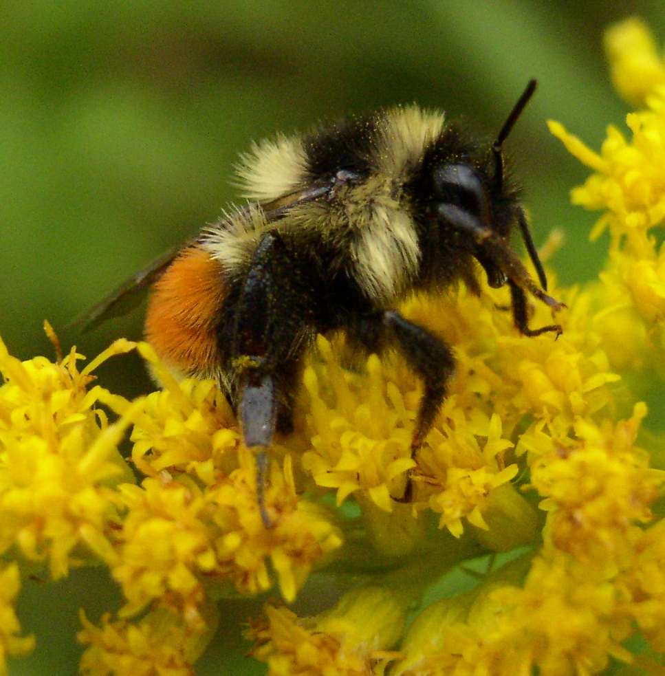 Bumblebee, Bombus ternarius on goldenrod. Michigan. Houghton, Houghton County, Michigan, USA.